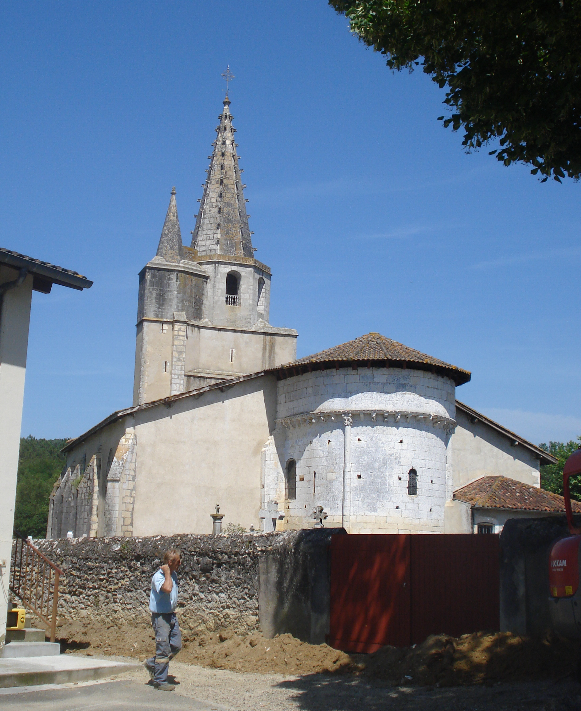 Church of Audignon (Landes,Fr)